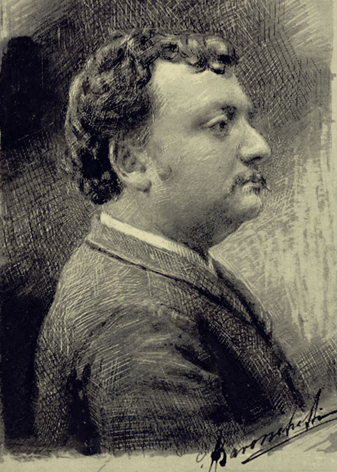 Portrait of Augusto Rotoli, composer (1847-1904), before 1917.